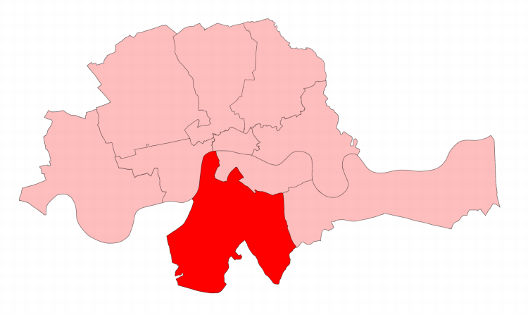 A map of Lambeth constituency within the Metropolitan Board of Works area, as it existed from 1868 to 1885.